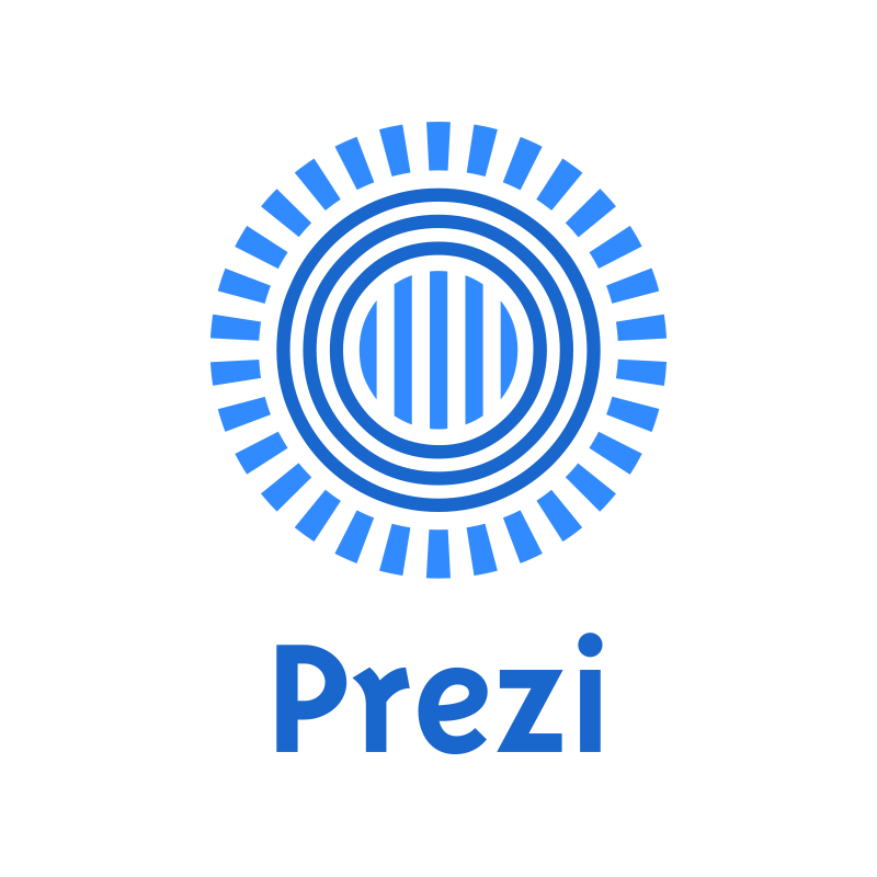 Logo of online presentation software Prezi.